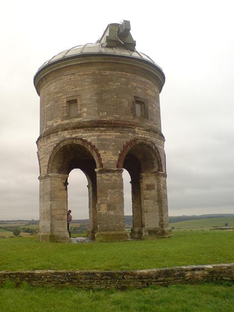 A photo of Chesterton Windmill, near Leamington Spa taken in August 2007 by cls14.